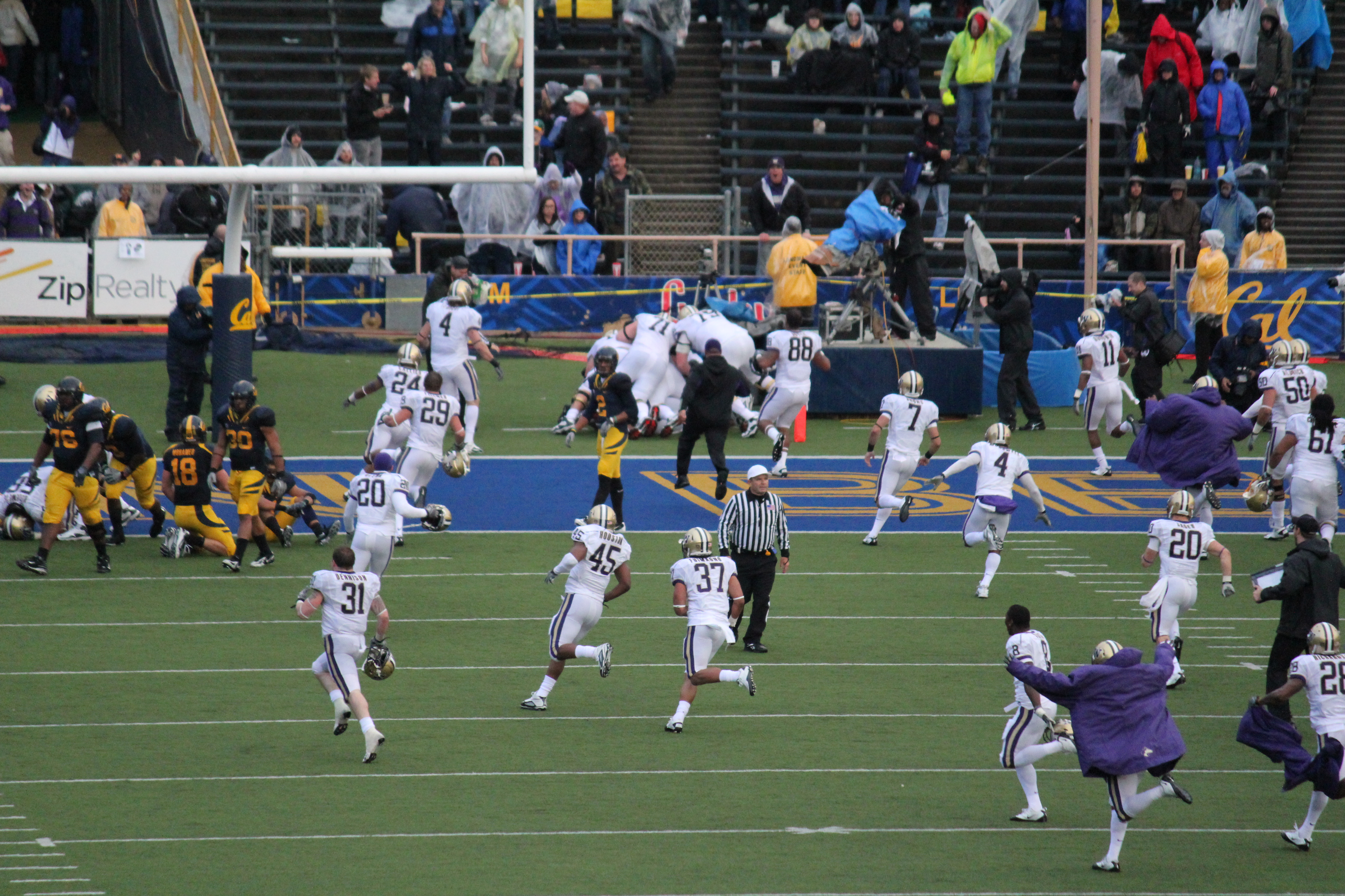 Washington players celebrate running back Chris Polk's touchdown with 2 seconds left in the game to win over Cal 16-13.